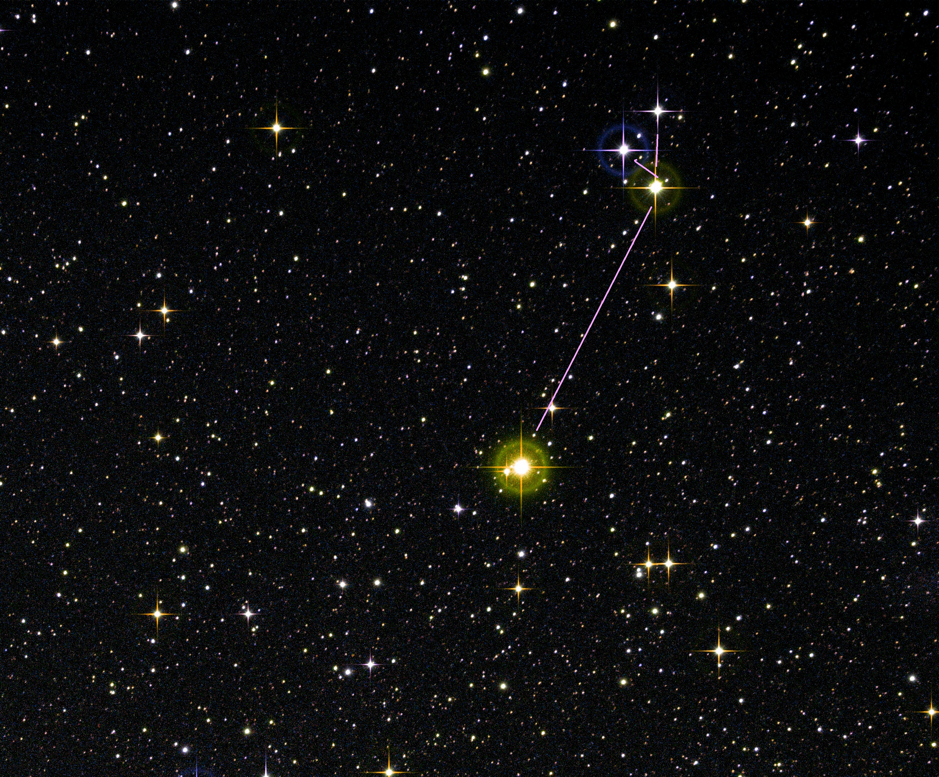 Canis Minor enhanced for color and contrast